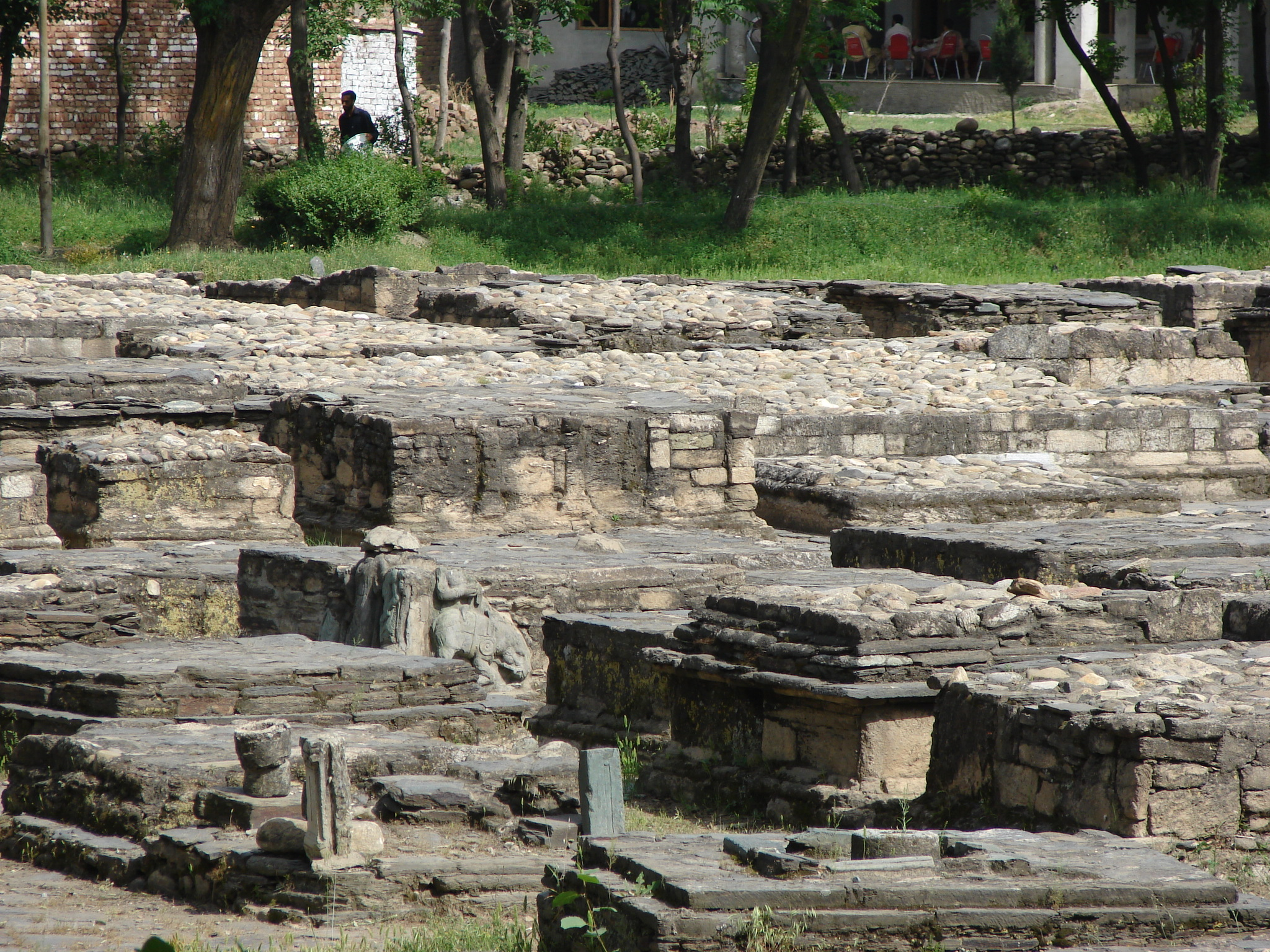 Buddhist/Buddha heritage, Swat Valley, Pakistan